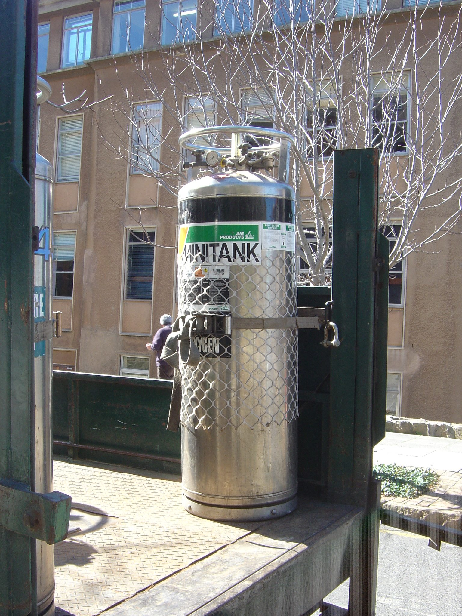 Portable container for liquid oxygen